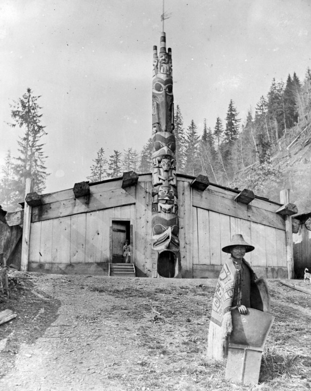 Chief “Highest Peak in Mountain Range” in front of “House Where People Always Want to Go.” Haina, 1888. His ceremonial garments include a spruce-root crest hat and Chilkat robe, and he holds copper shields.